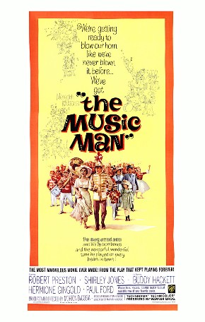 Theatrical poster for the American film The Music Man (1962).